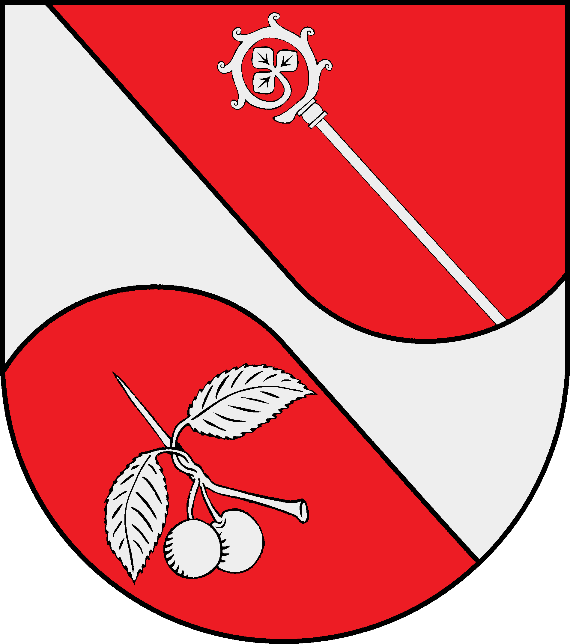 Coat of arms of the municipality Mönkhagen in Schleswig-Holstein, Germany.